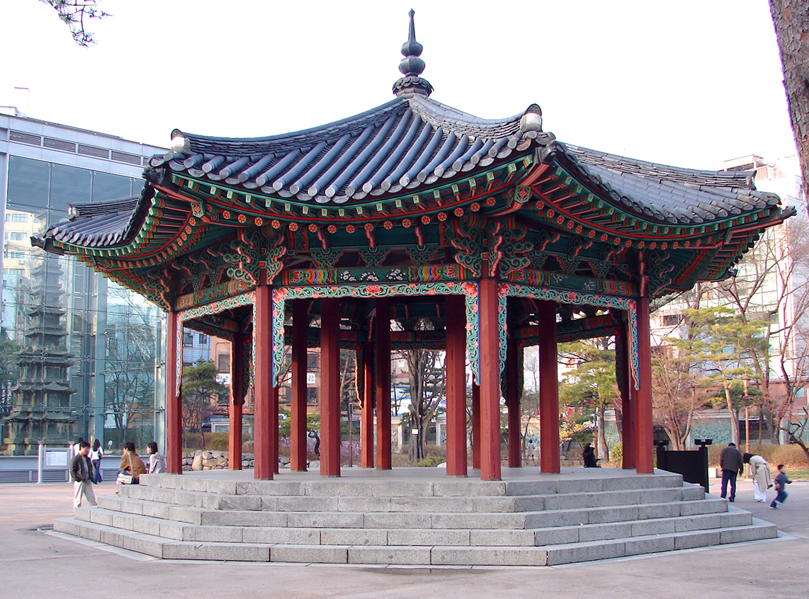 The pavilion in the center of Tapgol Park in downtown Seoul. with Dancheong or traditionally painted eaves.